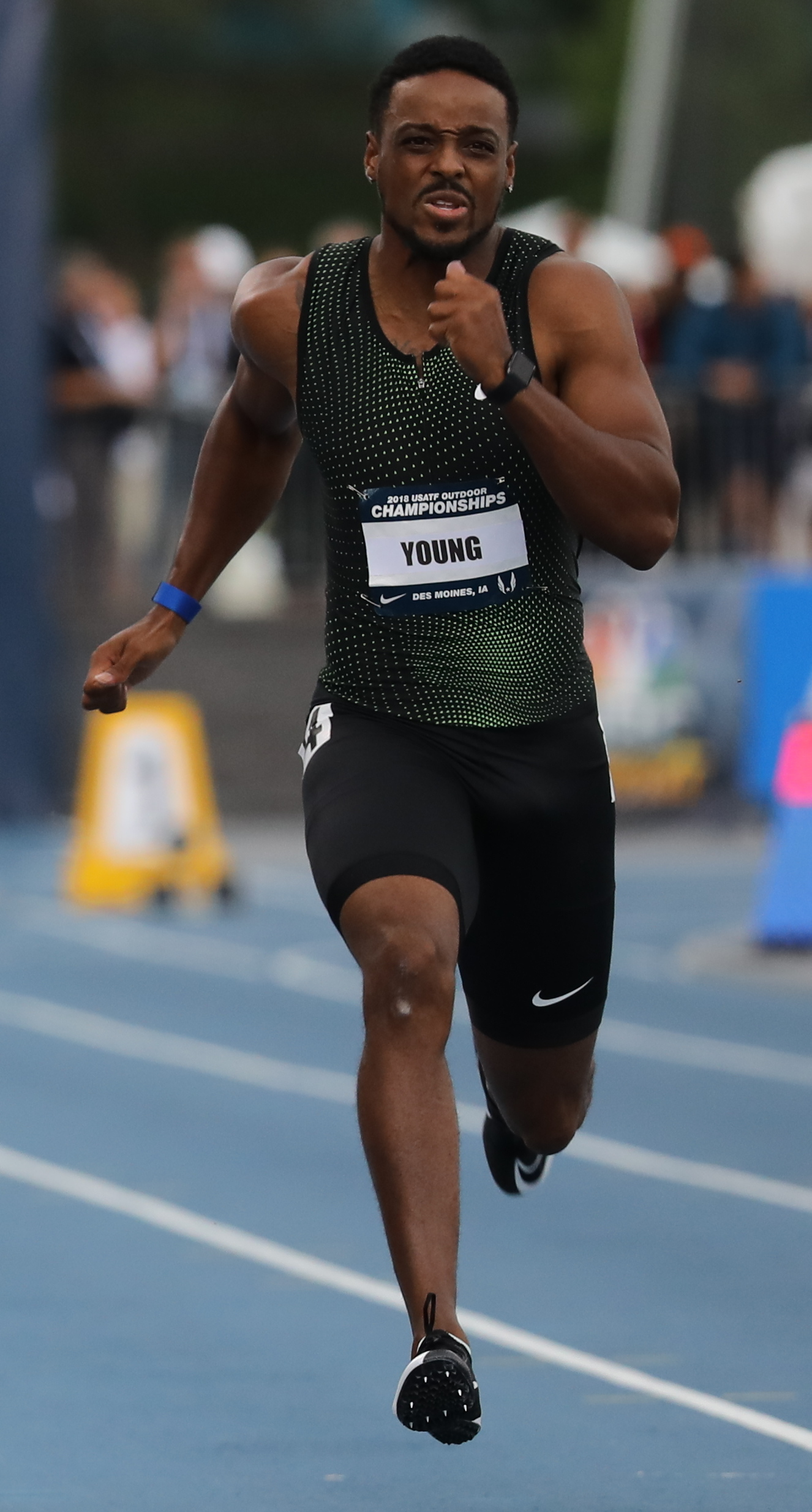 2018 USA Outdoor Track and Field Championships